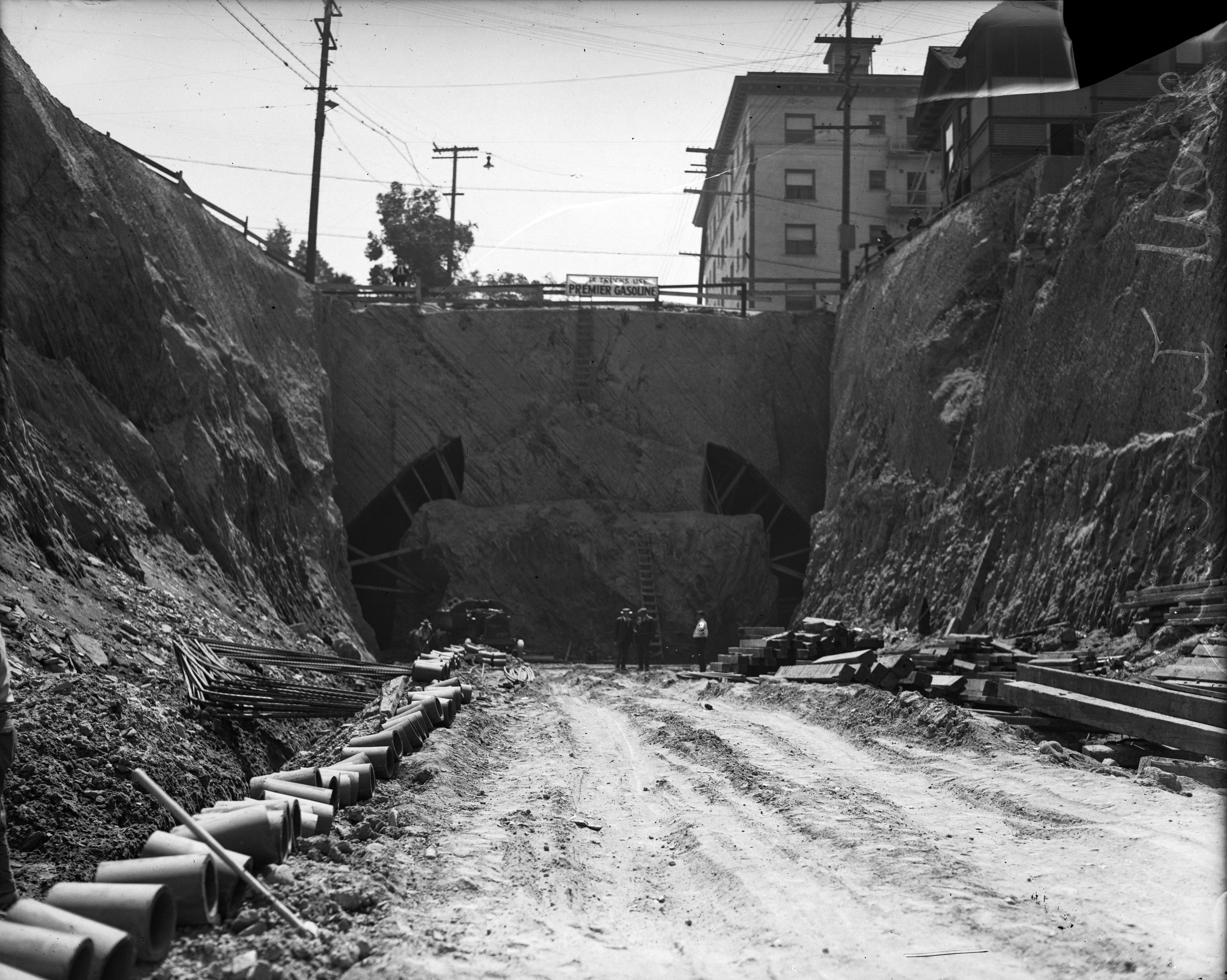 2nd Street Tunnel construction site before the boring of the tunnel in Los Angeles, Calif., 1921, from the Figueroa Street side.